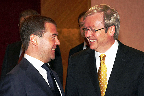 LONDON. With Australian Prime Minister Kevin Rudd.